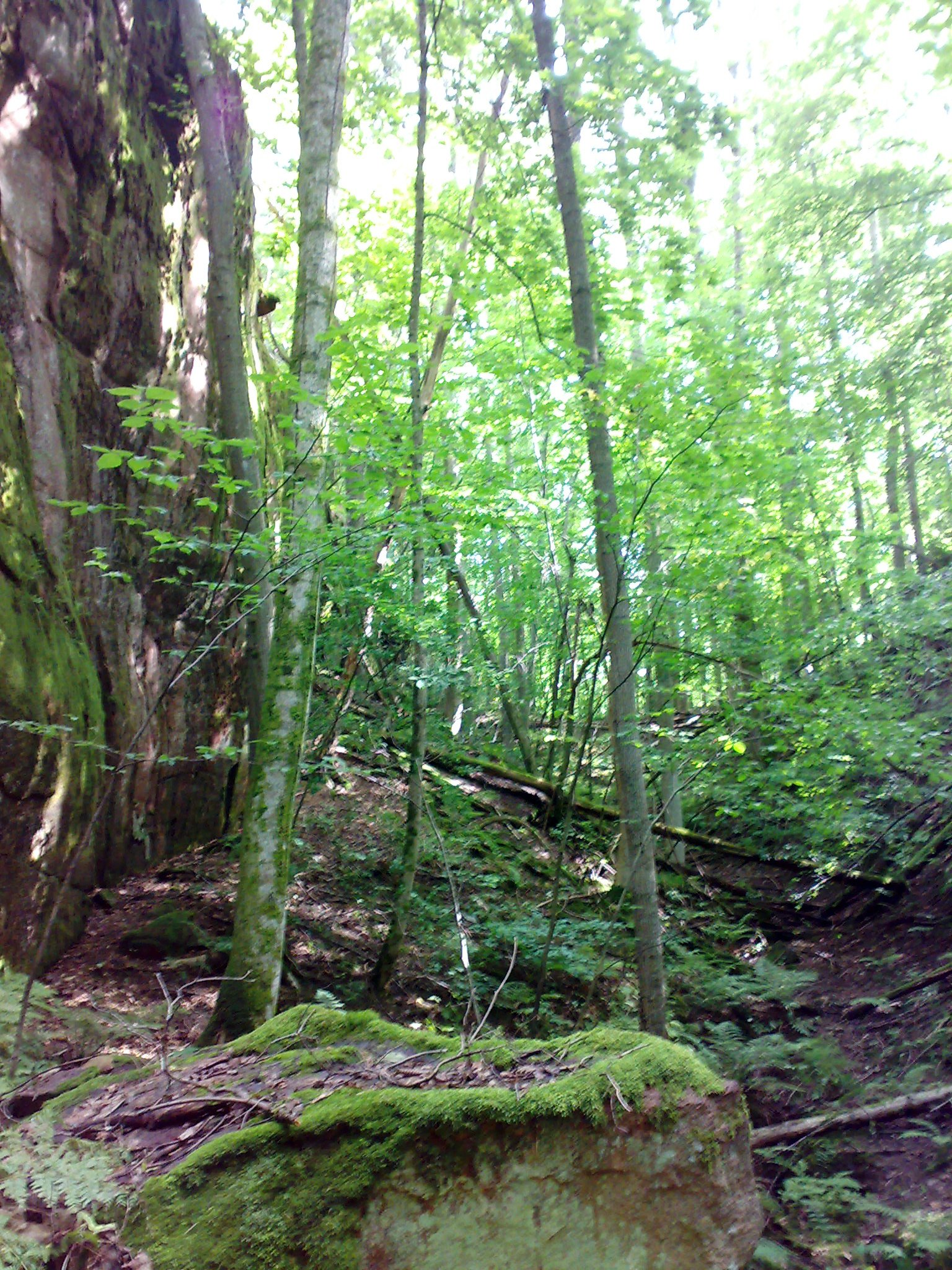 Holtnesdalen nature reserve, at Rødtangen in Hurum municipality, southeastern Buskerud (Norway)